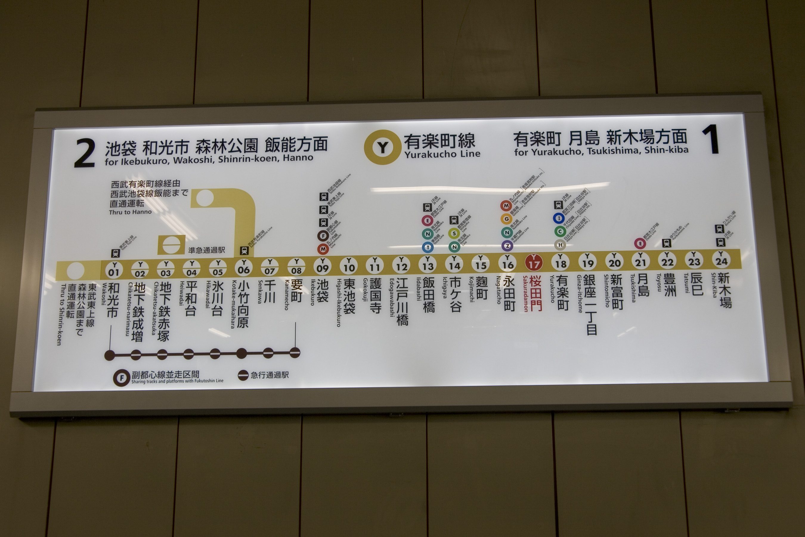 Tokyo Metro Yūrakuchō Line plan